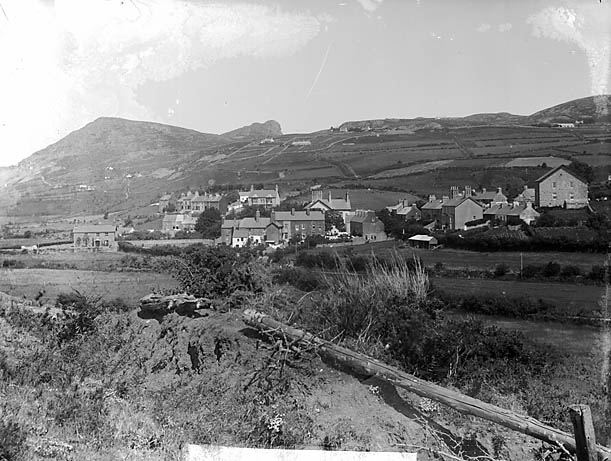 1 negative : glass, dry plate, b&w ; 16.5 x 21.5 cm.